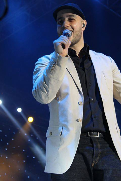 Konya, Turkey concert in front of 20,000 peopleBahasa Melayu: Zain membuat persembahan di Konya, Turki Mac 2014